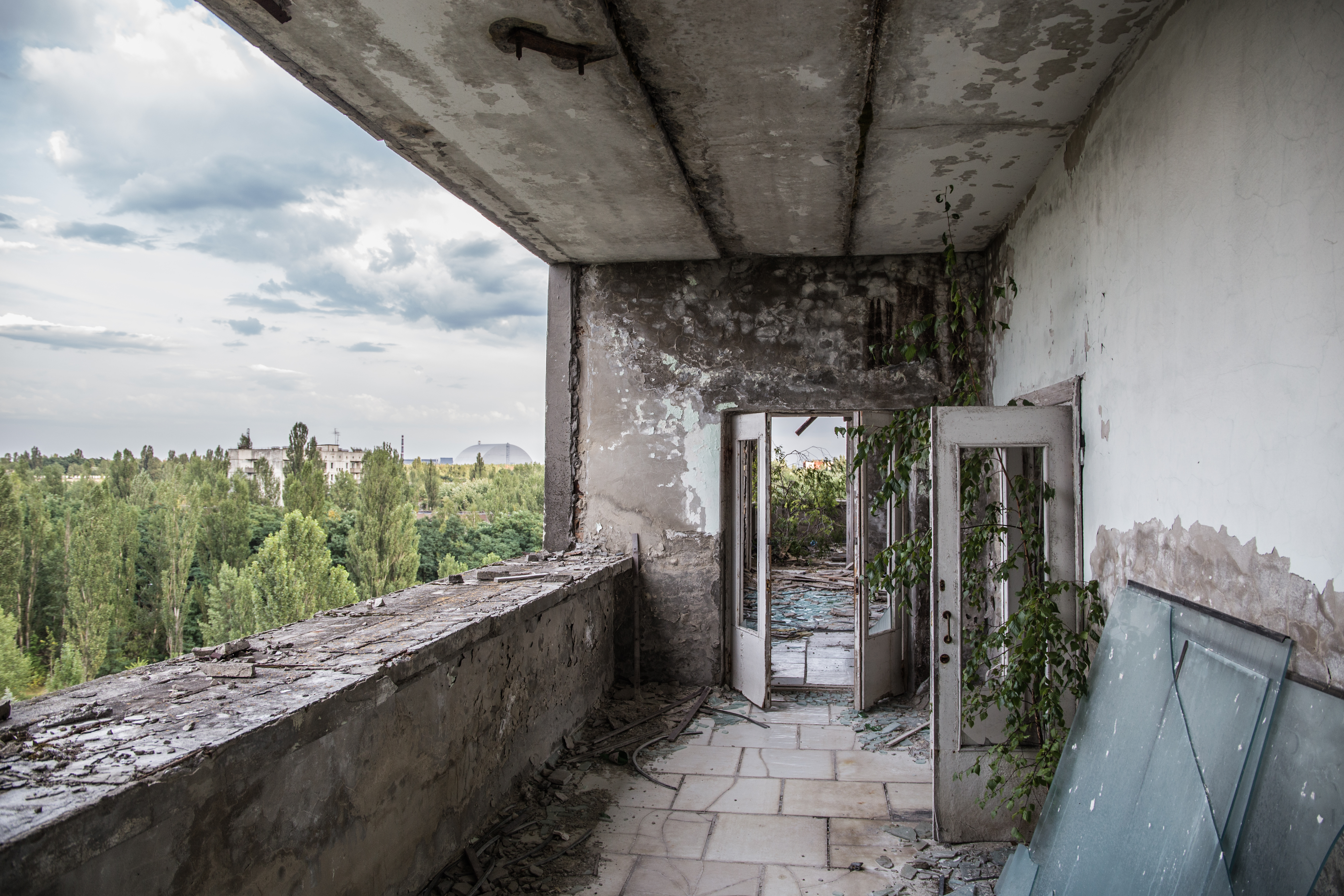 Hotel in Pripjat, with the reactor in the background.